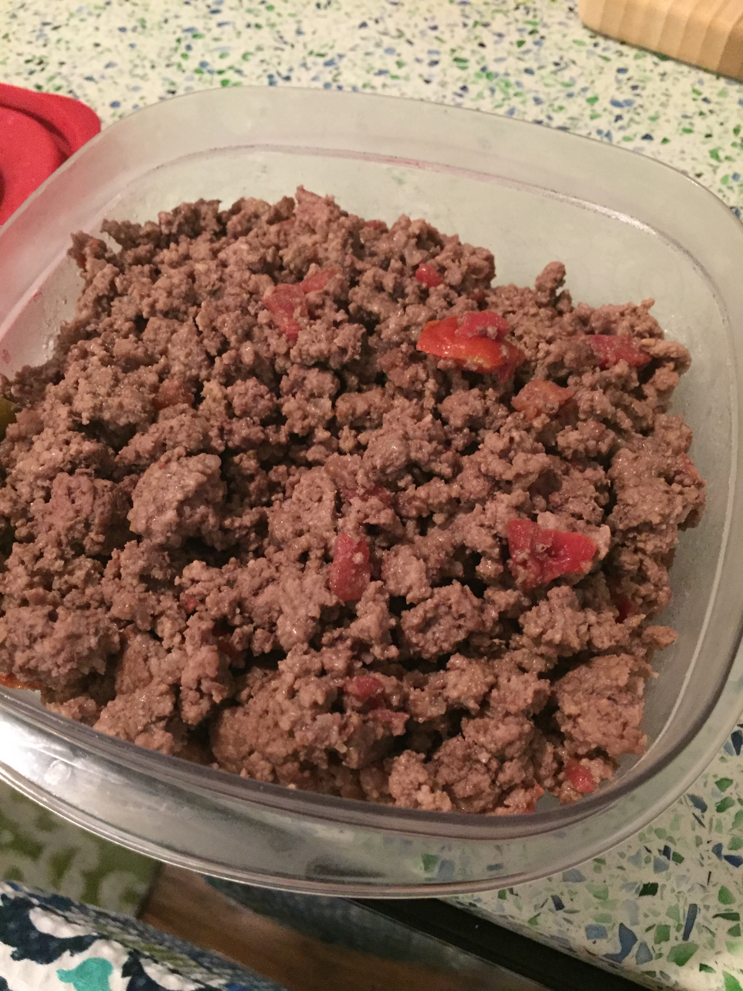 ground beef